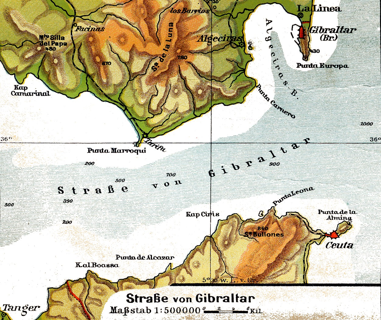 European cities and landscapes, Strait of Gibraltar